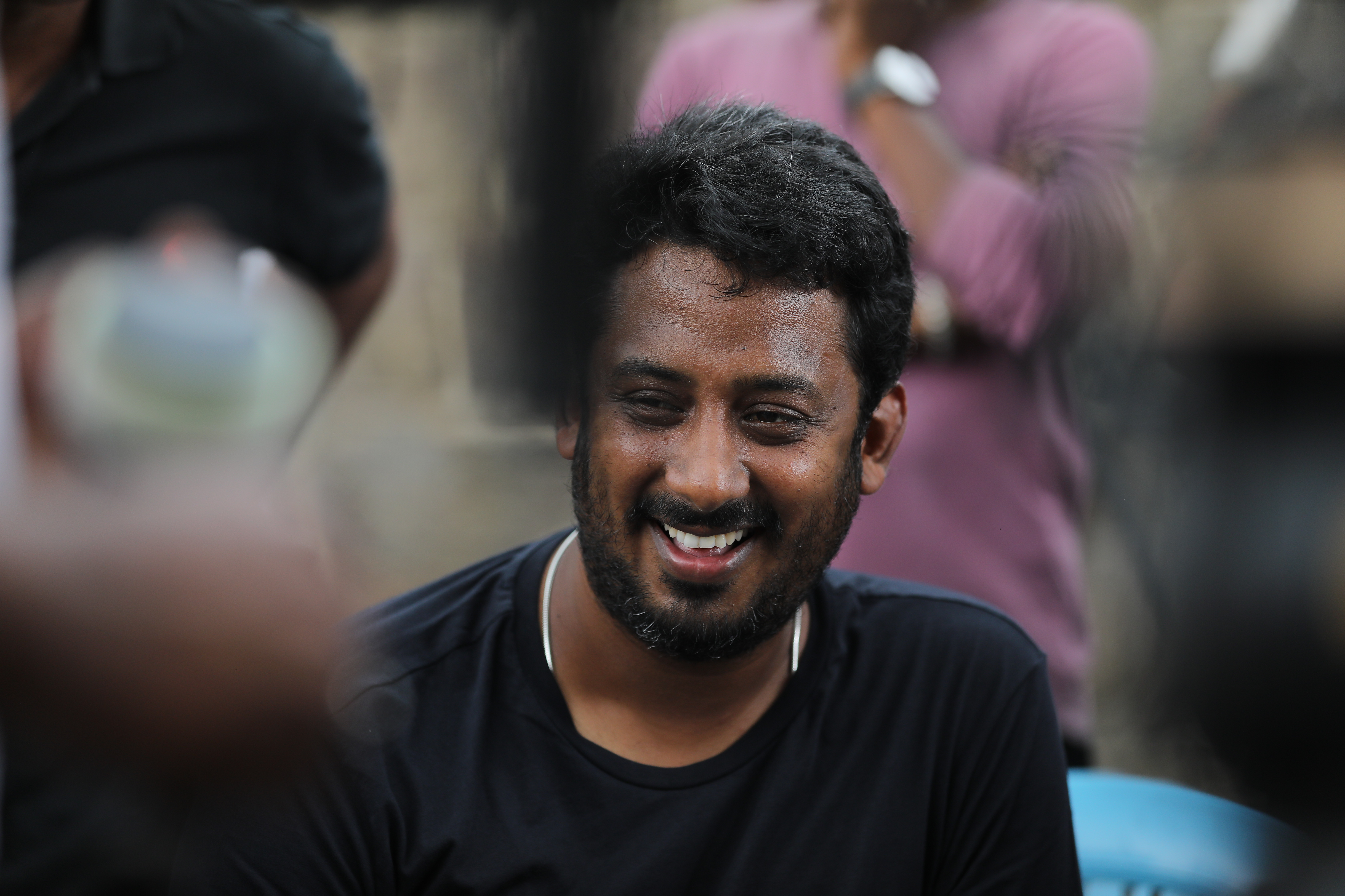 Harsha (director) ಕನ್ನಡ: Harsha (director)